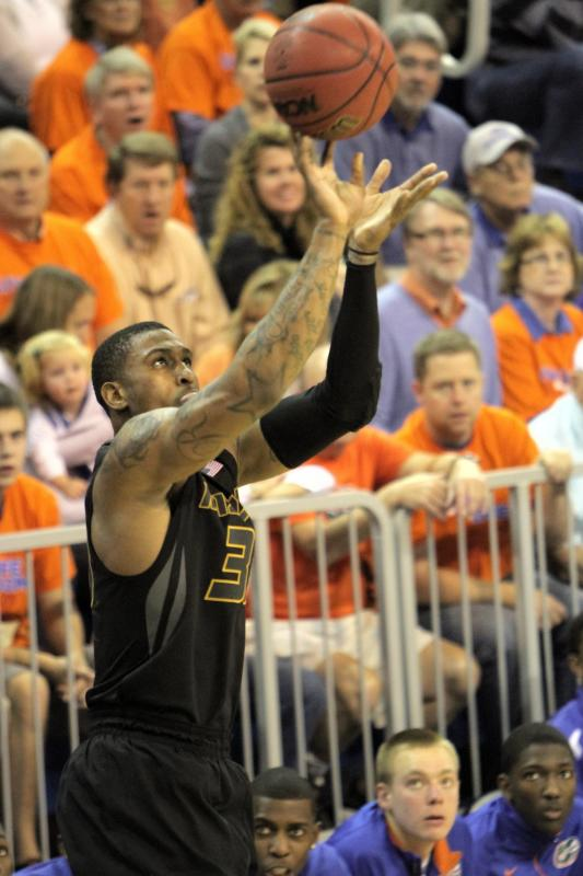 Earnest Ross of the Missouri Tigers taking a 3-pointer